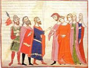 Edward I of England and Margaret of France